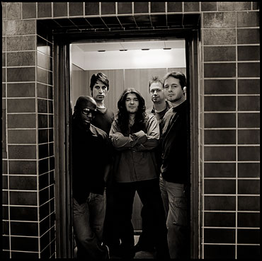 Threshold